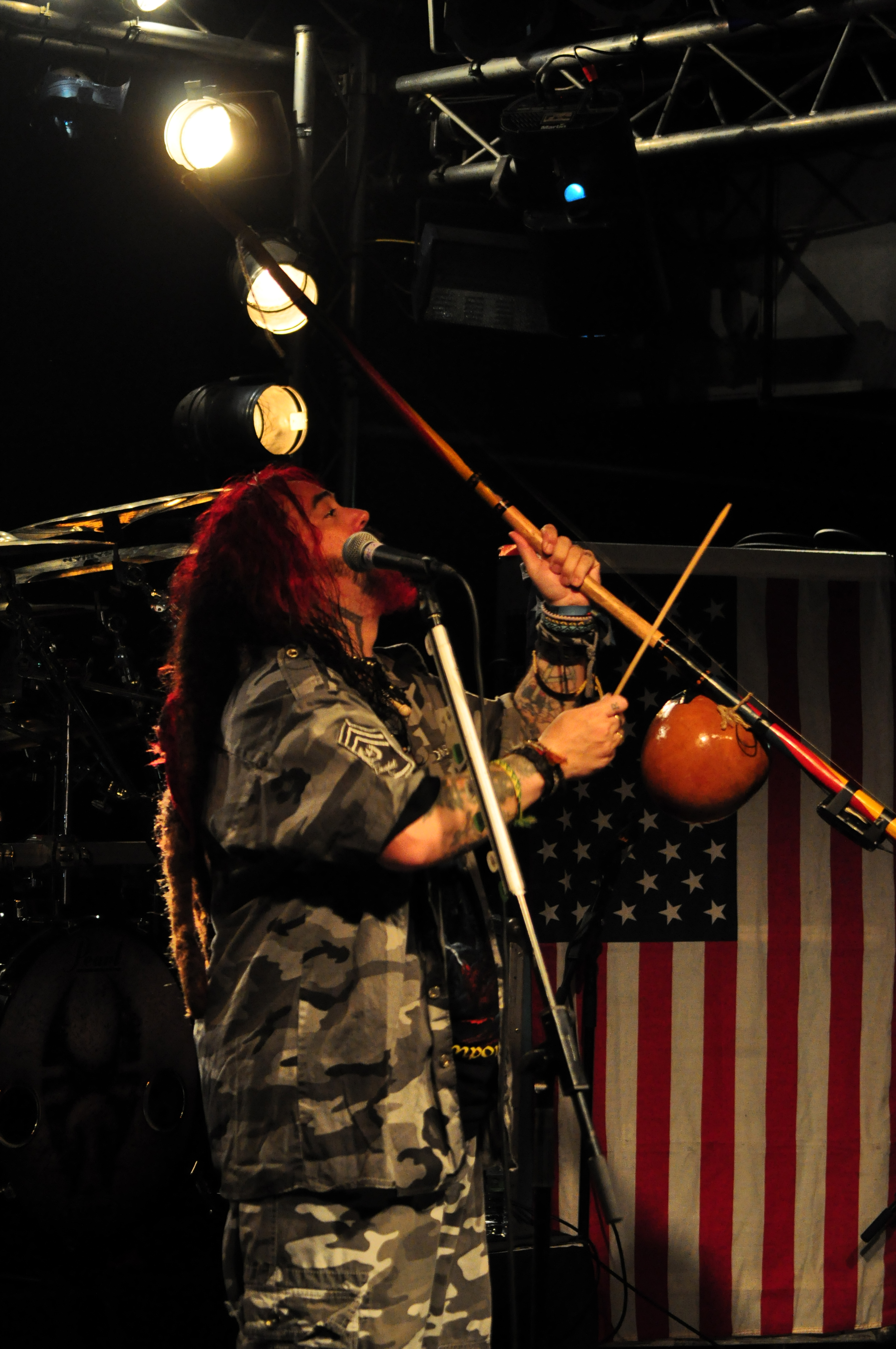 Soulfly in Rostock 2012